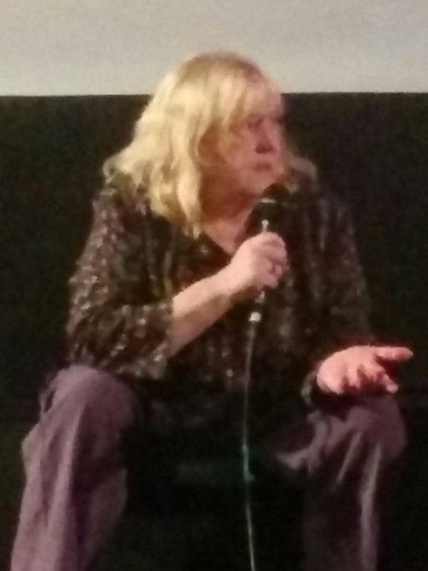 Christa Lang at a Q&A session for Dead Pigeon on Beethoven Street at the Roxie Theatre in San Francisco, California, United States